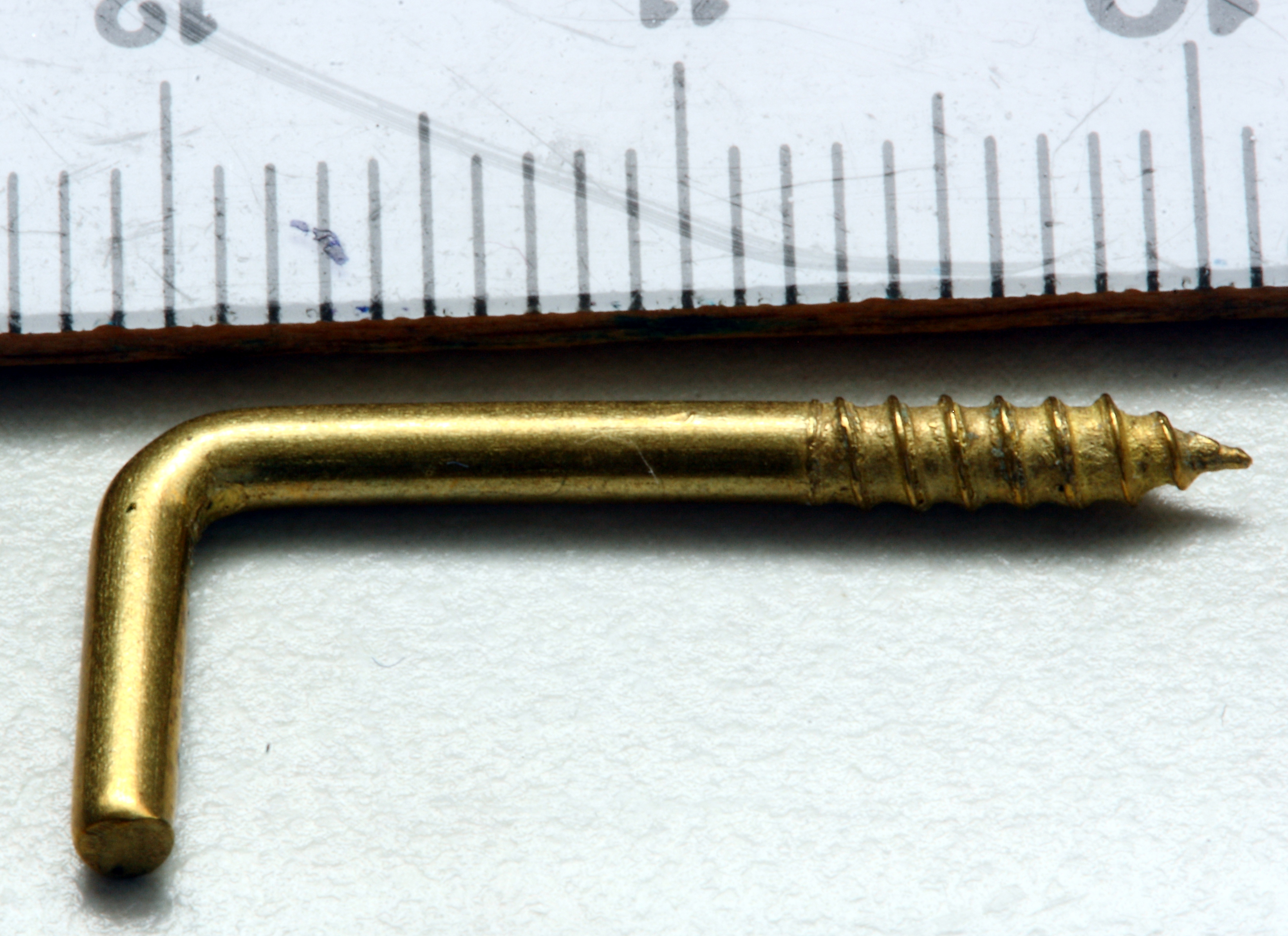 Mini hook screw, brass plt.